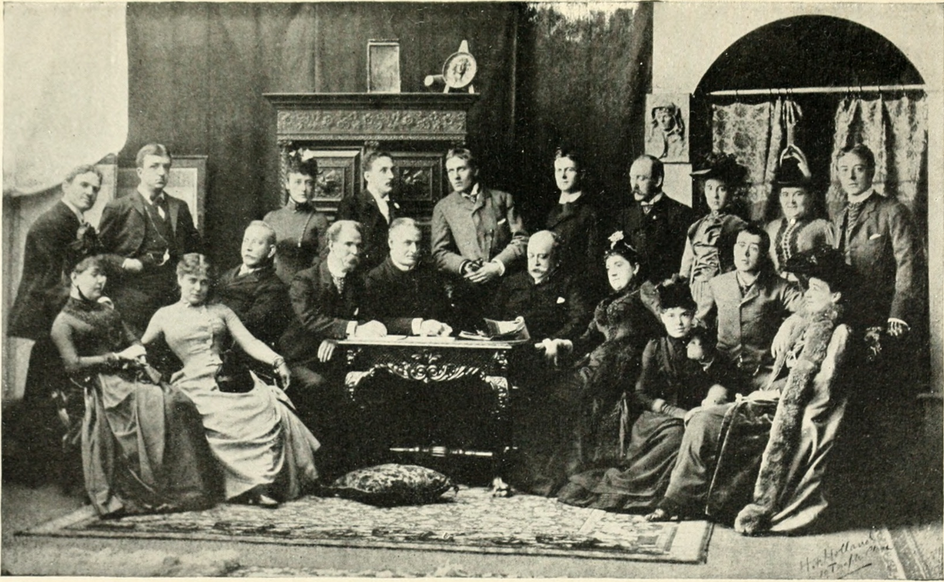 The Boston Museum Stock Company, 1889-1890; from a 1915 publication. Standing (l-r): Thomas L. Coleman, John Mason, Lillian Hadley, Edgar L. Davenport, Errol Dunbar, Charles S. Abbe, James Burrows, Marian Hebron, Kate Ryan, Junius B. Booth. Seated (l-r): Fannie Addison Pitt, Emma Sheridan, George C. Boniface, James R. Pitman, H. M. Pitt, R. M. Field, Annie M. Clarke, Miriam O'Leary, George W. Wilson, Evelyn Campbell.